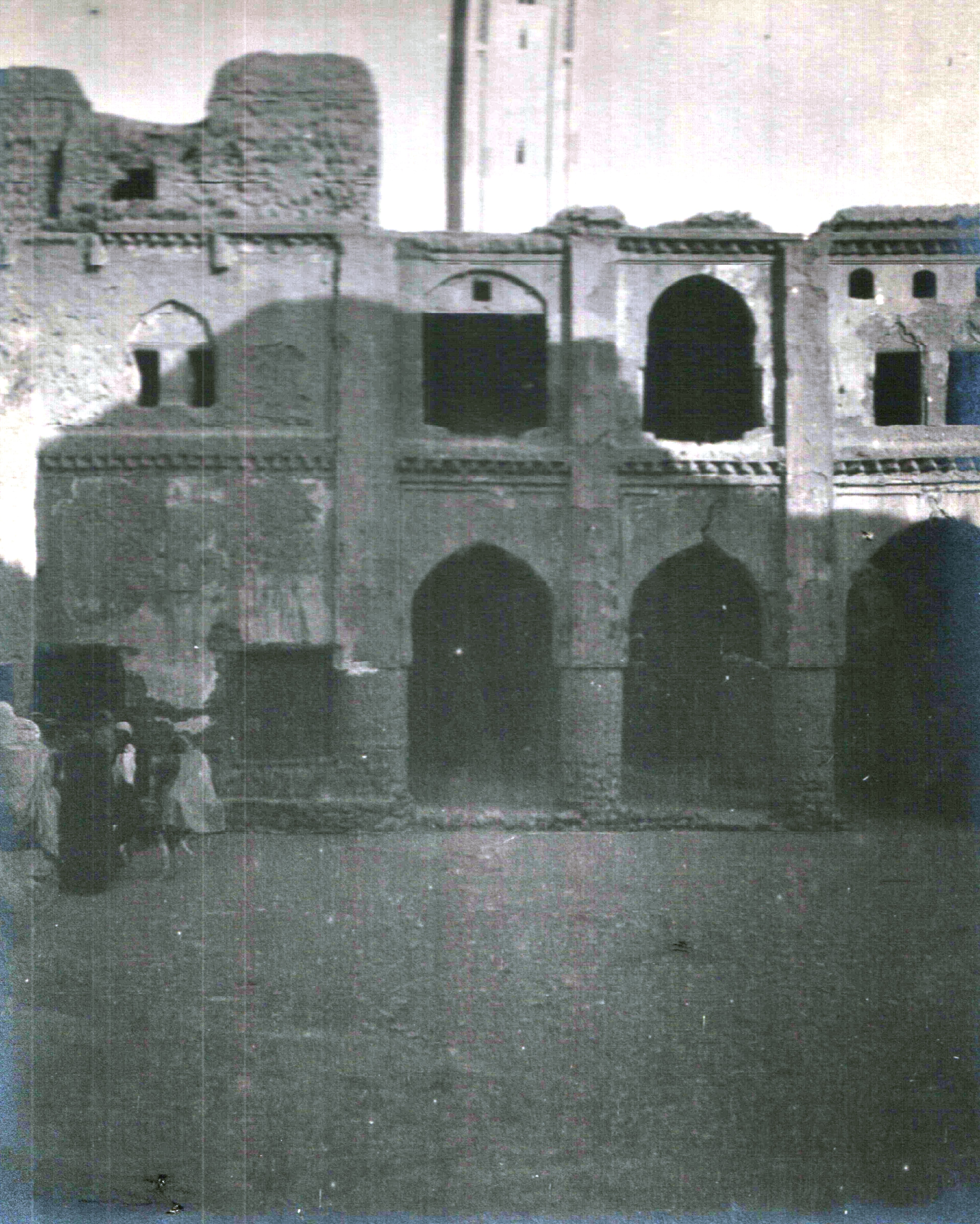 Views and photos of the Sahara desert and other regions in Africa. Mosque in Figuig, Morocco.